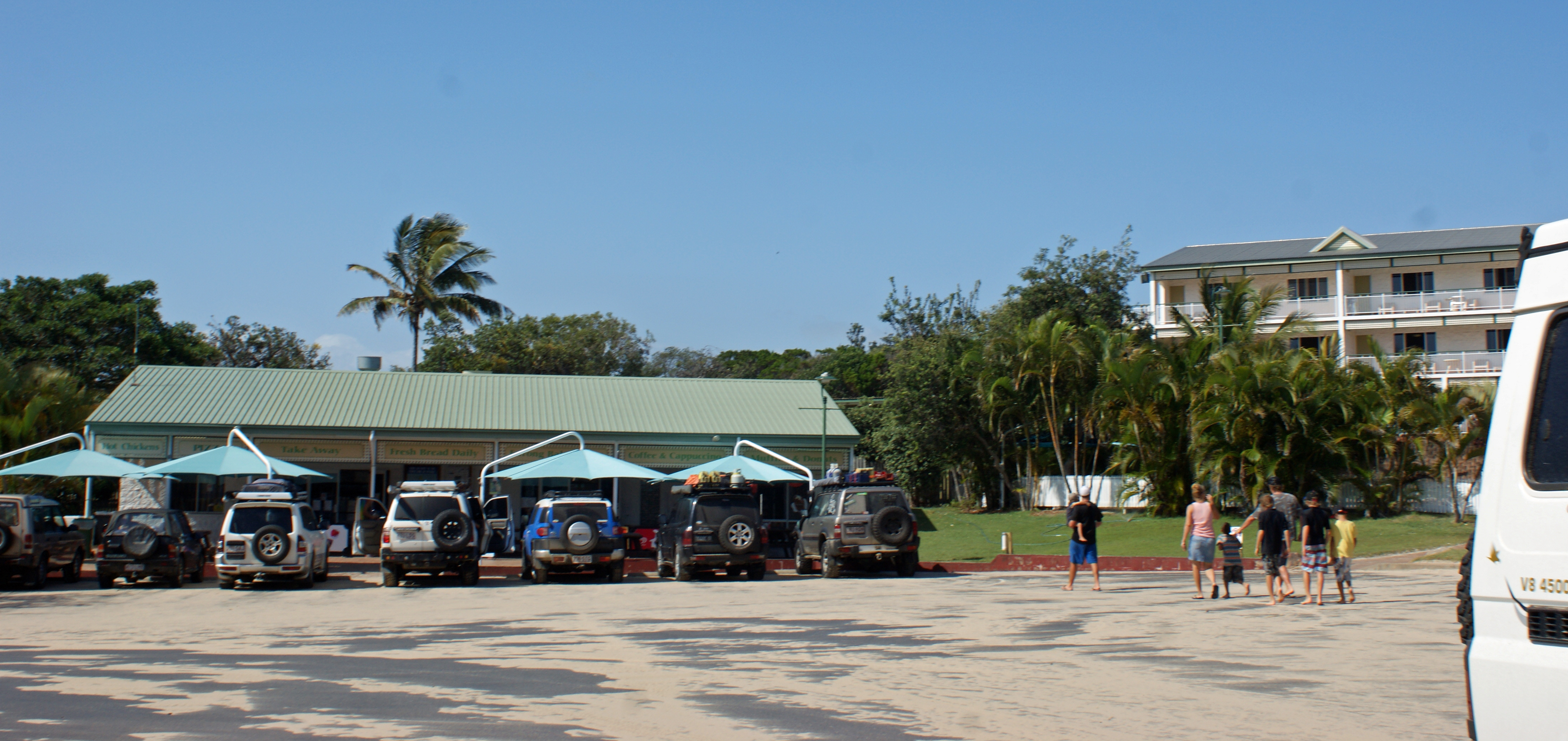 Eurong shop in the resort, Fraser Island, Queensland, Australia